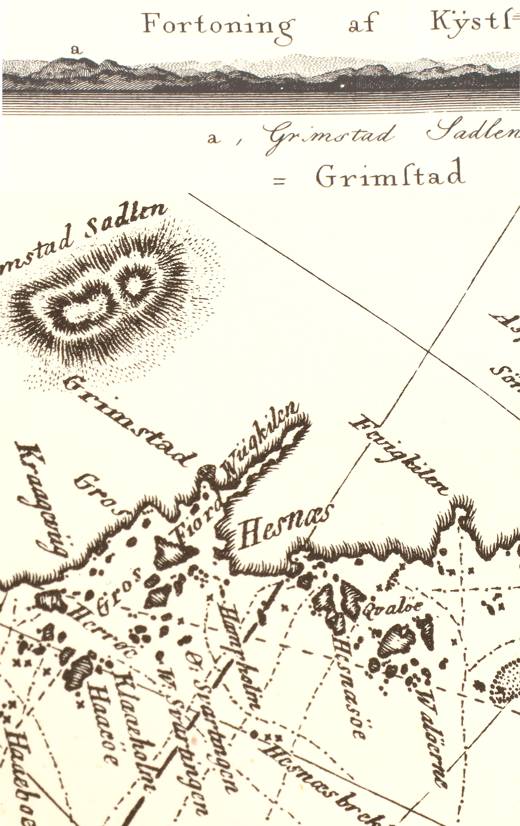 Map of Grimstad With Imenessadelen and landtonign